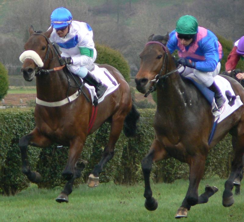 Two jockeys horse racing